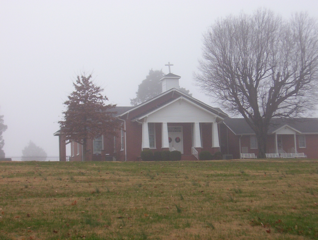 Trinity United Methodist Church in Nutbush, TN (Dec. 2007) Photo made by: Thomas R Machnitzki I made the photo myself, feel free to use it.